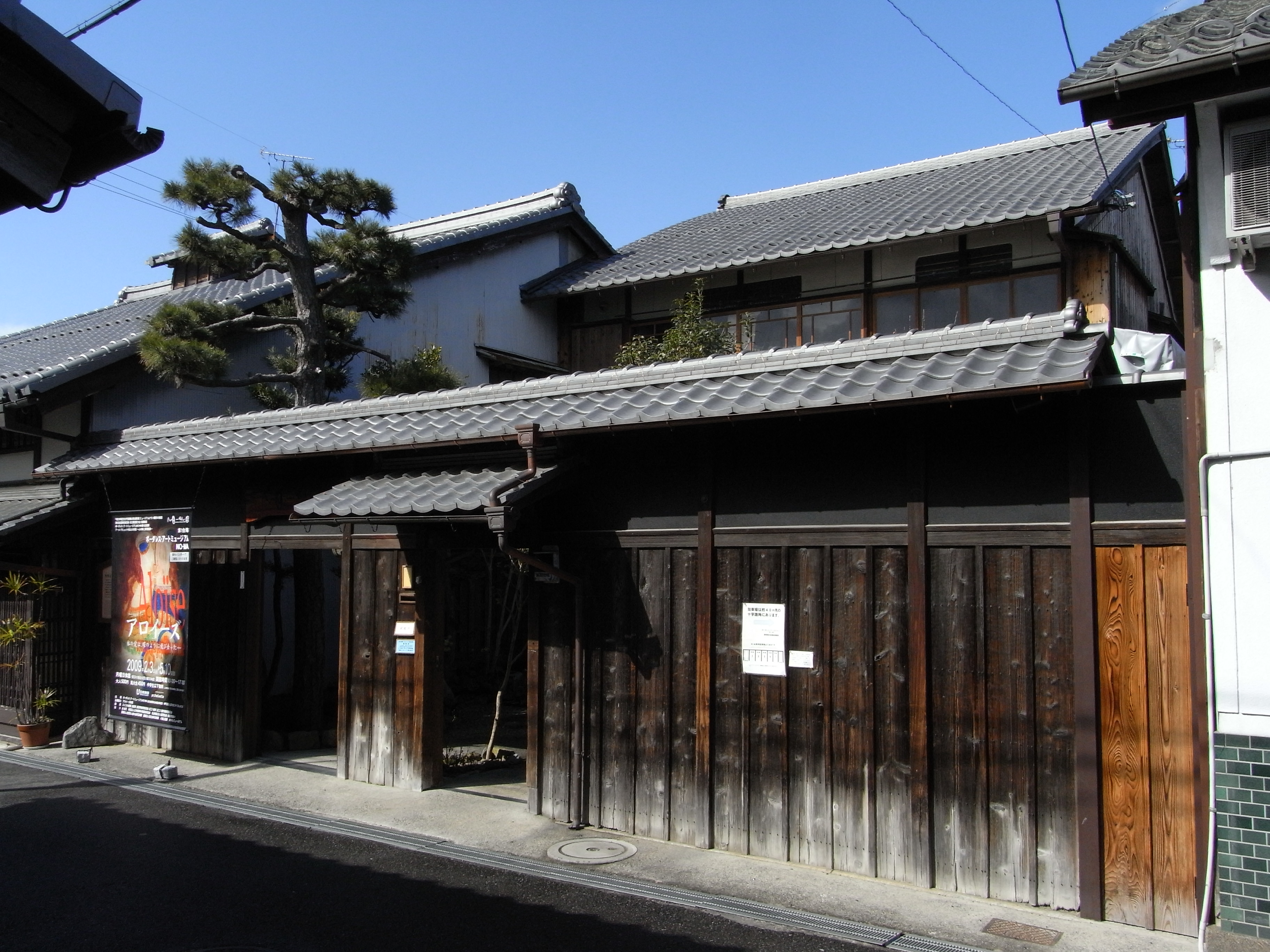 Borderless Art Museum NO-MA